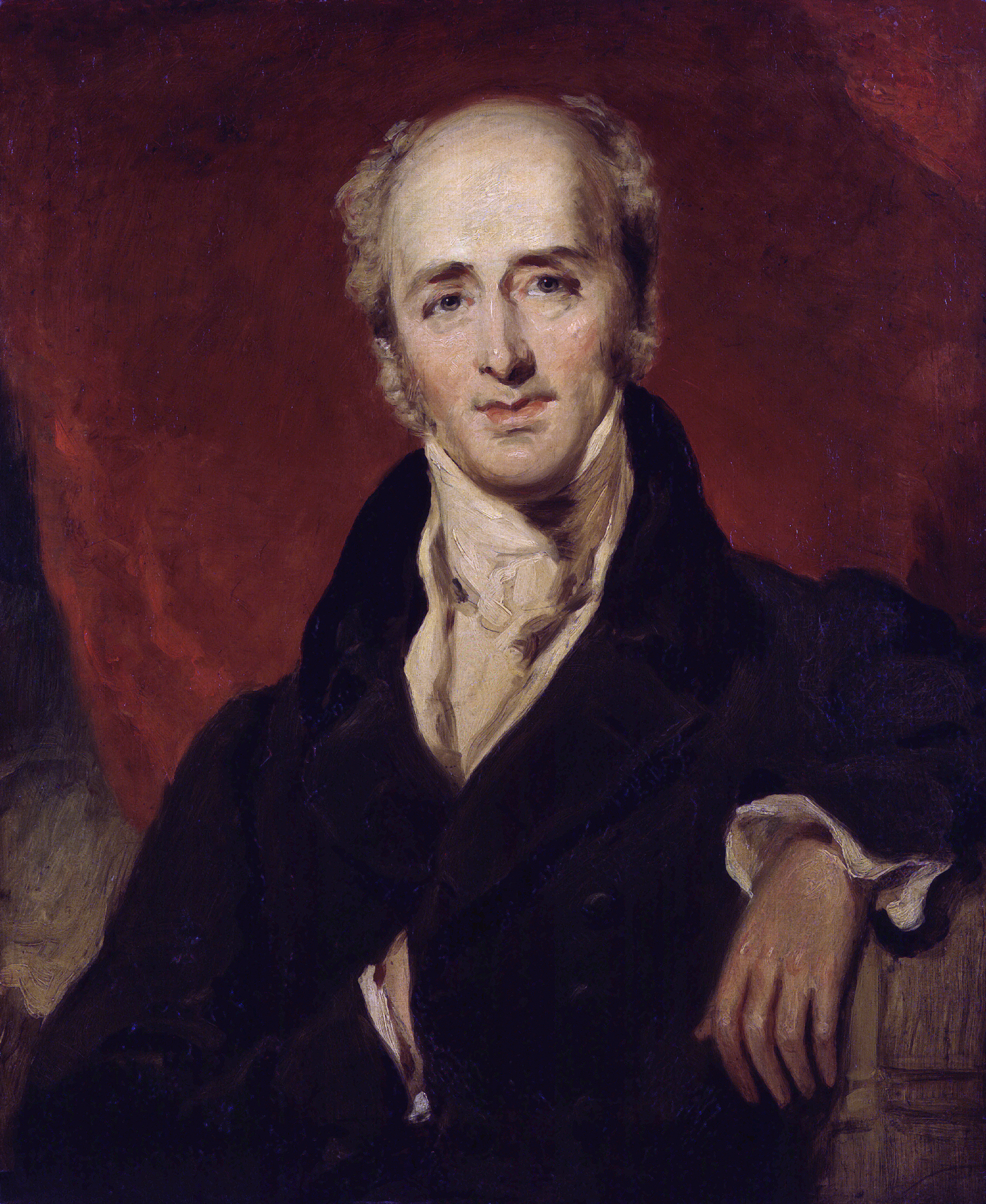 Portrait of Charles Grey (1764–1845)